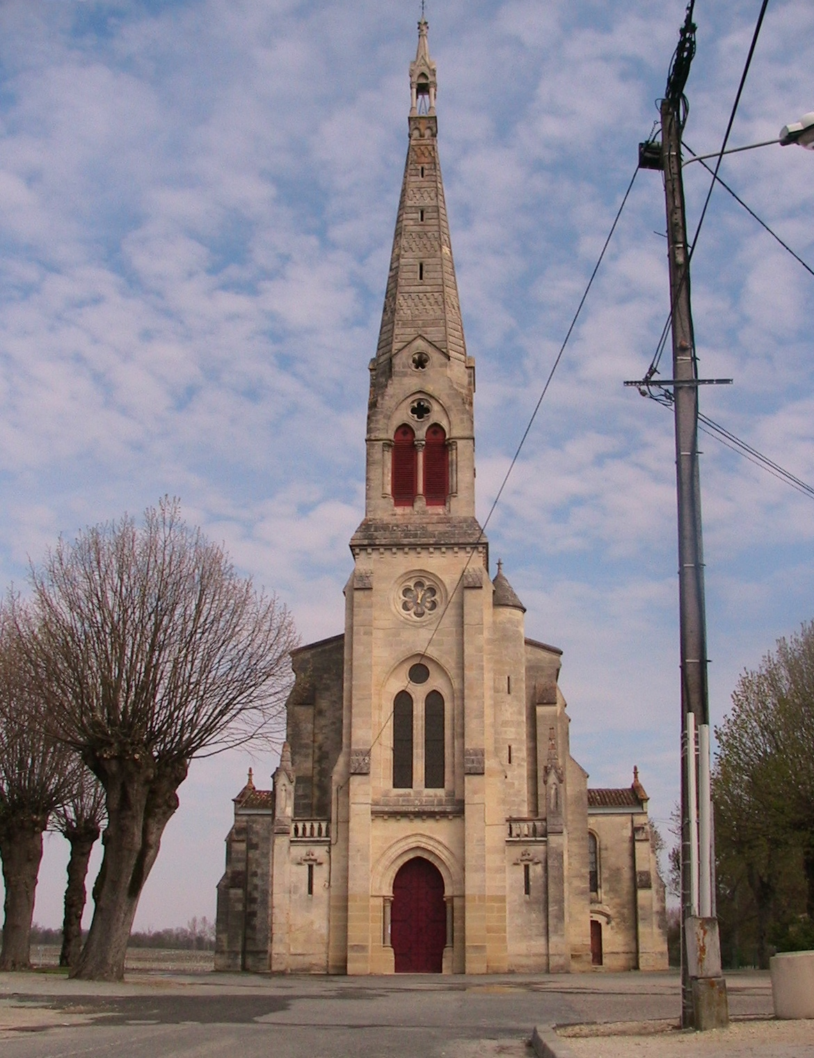 Church of Soussans, Médoc, 33, France.